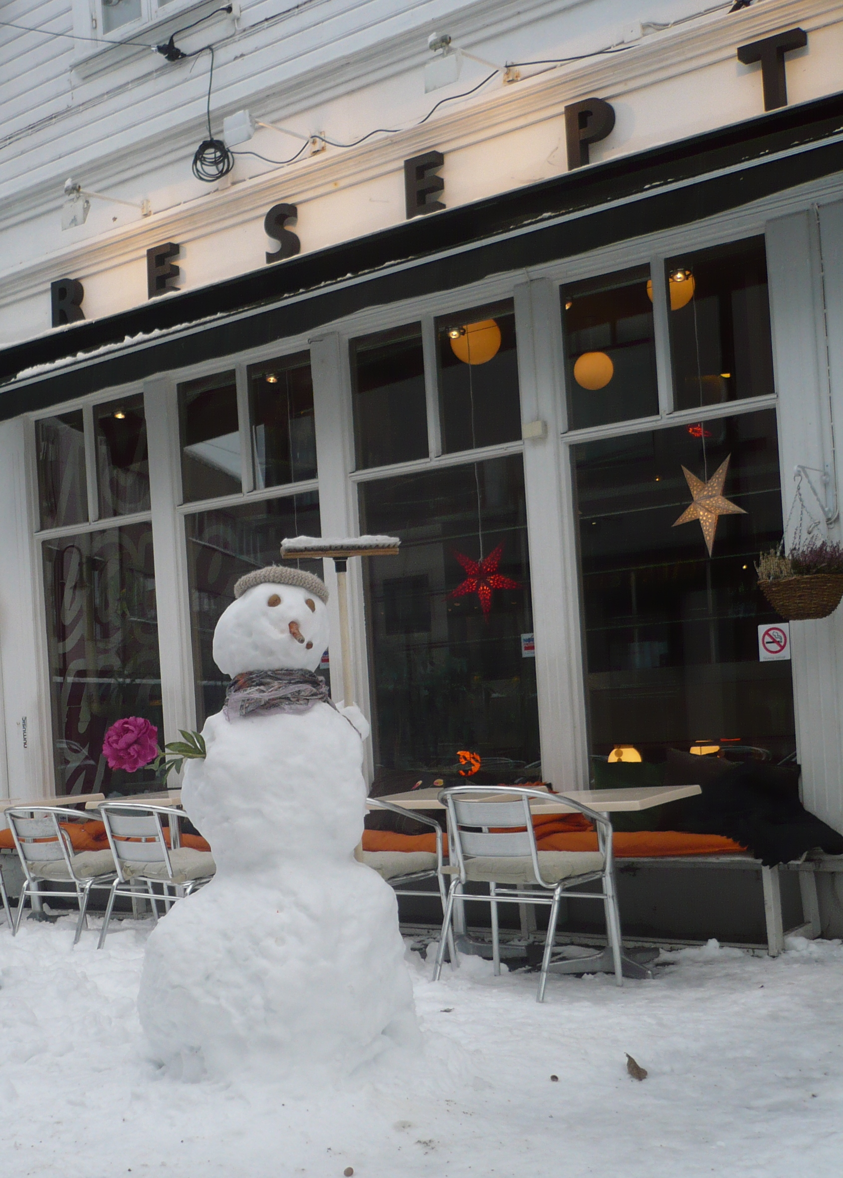 A snowman in Østervåg in Stavanger 2009